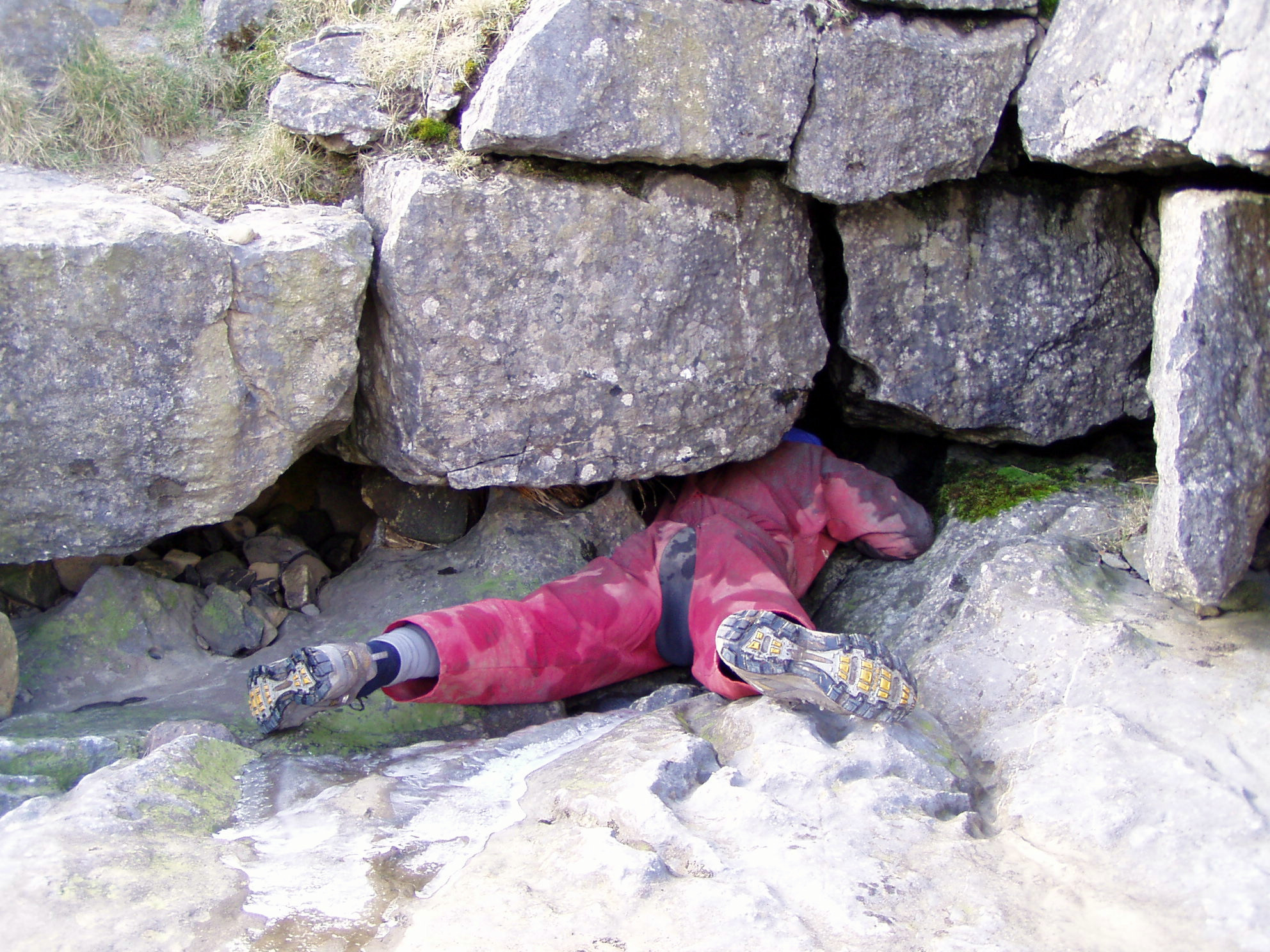 Mike Wooding in the entrance of Rat Hole, one of the entrances to the Gaping Gill cave system on Ingleborough, North Yorkshire, UK